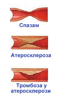 Cause of angina pectoris